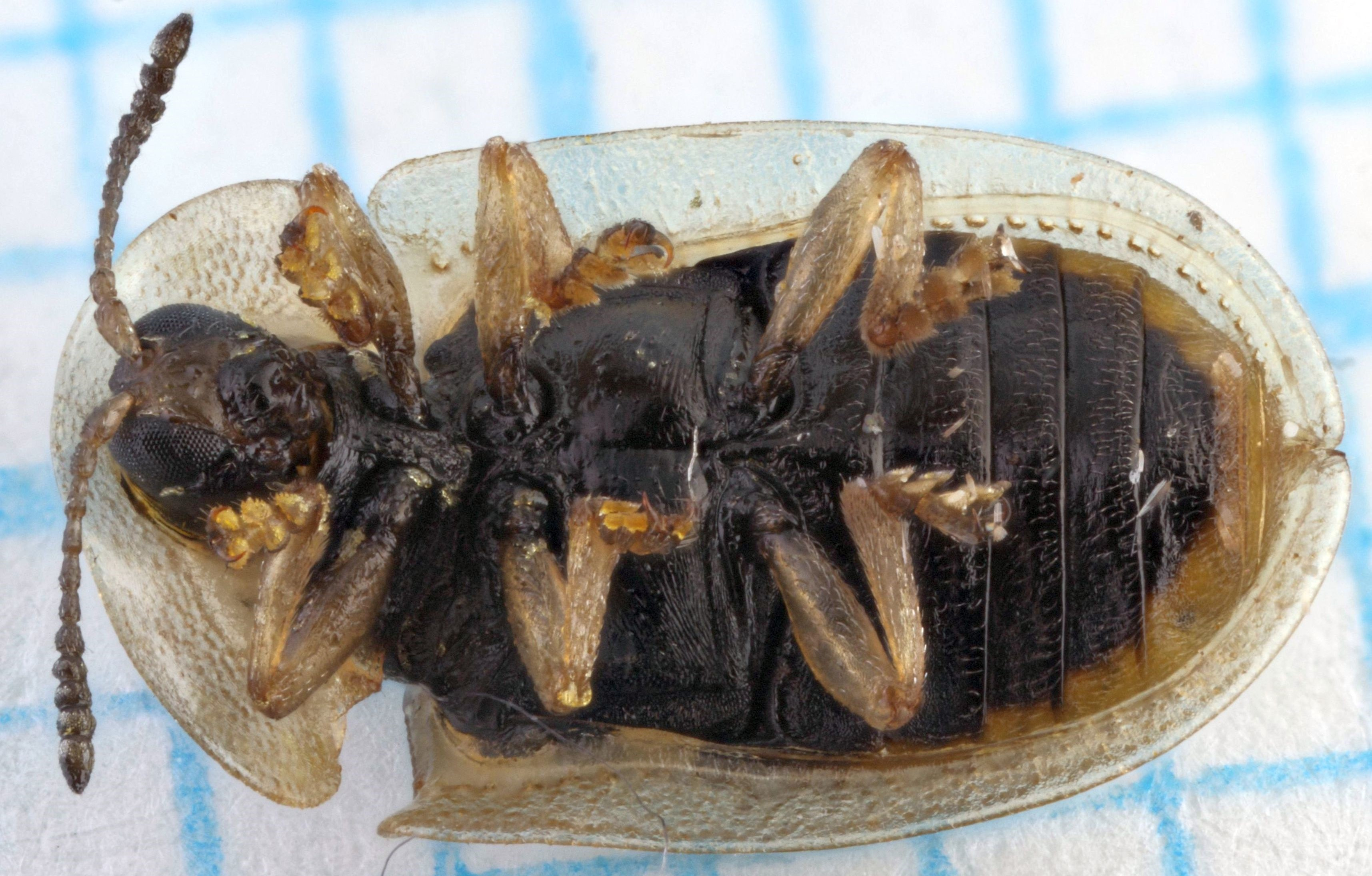 Pale tortoise beetle, Cassida flaveola